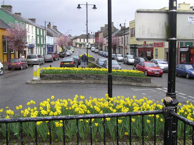 Main Street, Irvinestown Looking NNE